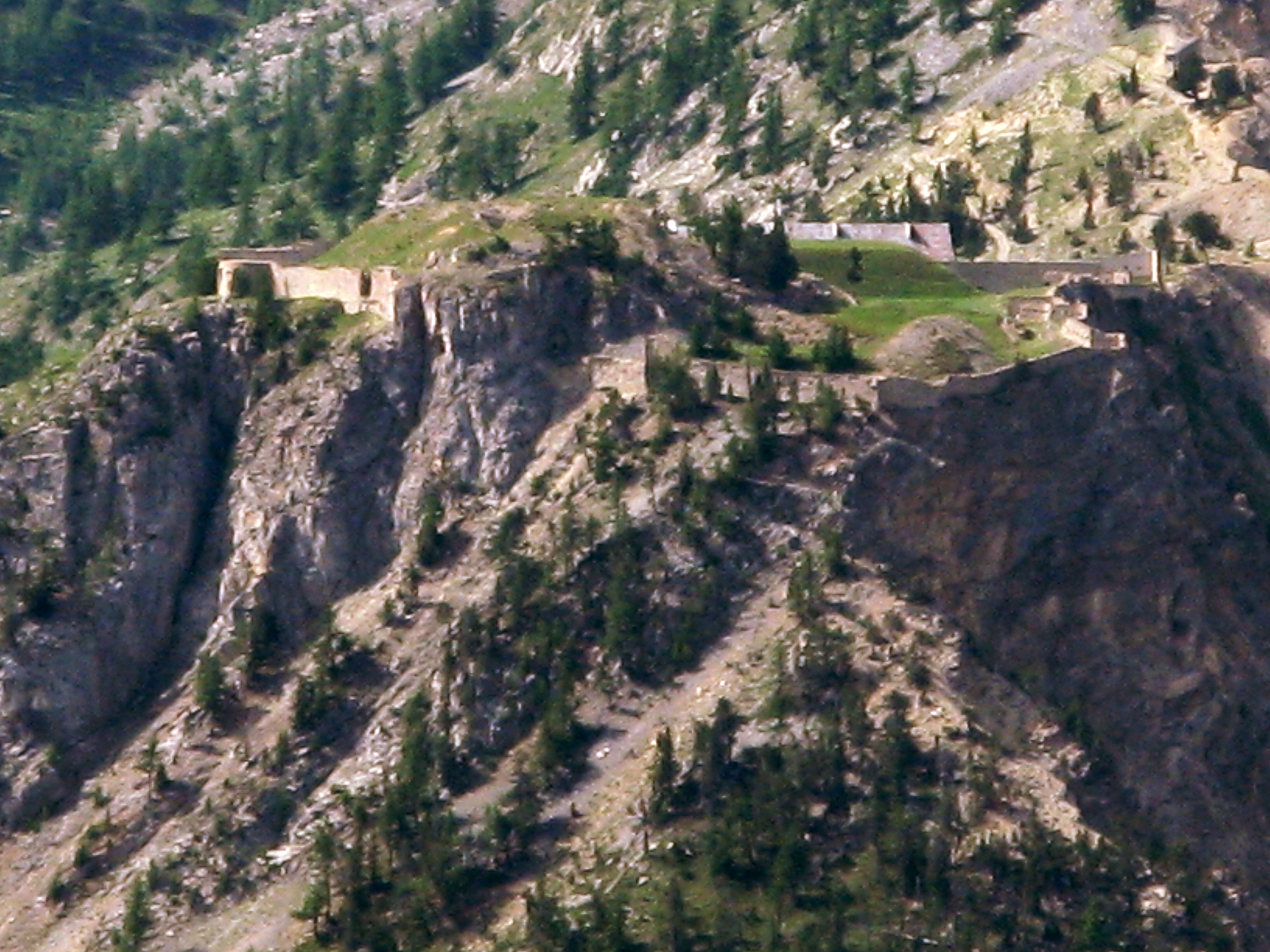 Fort de l'Olive, seen from the Aiguille Rouge, France